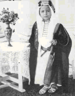 King Faisal II of Iraq